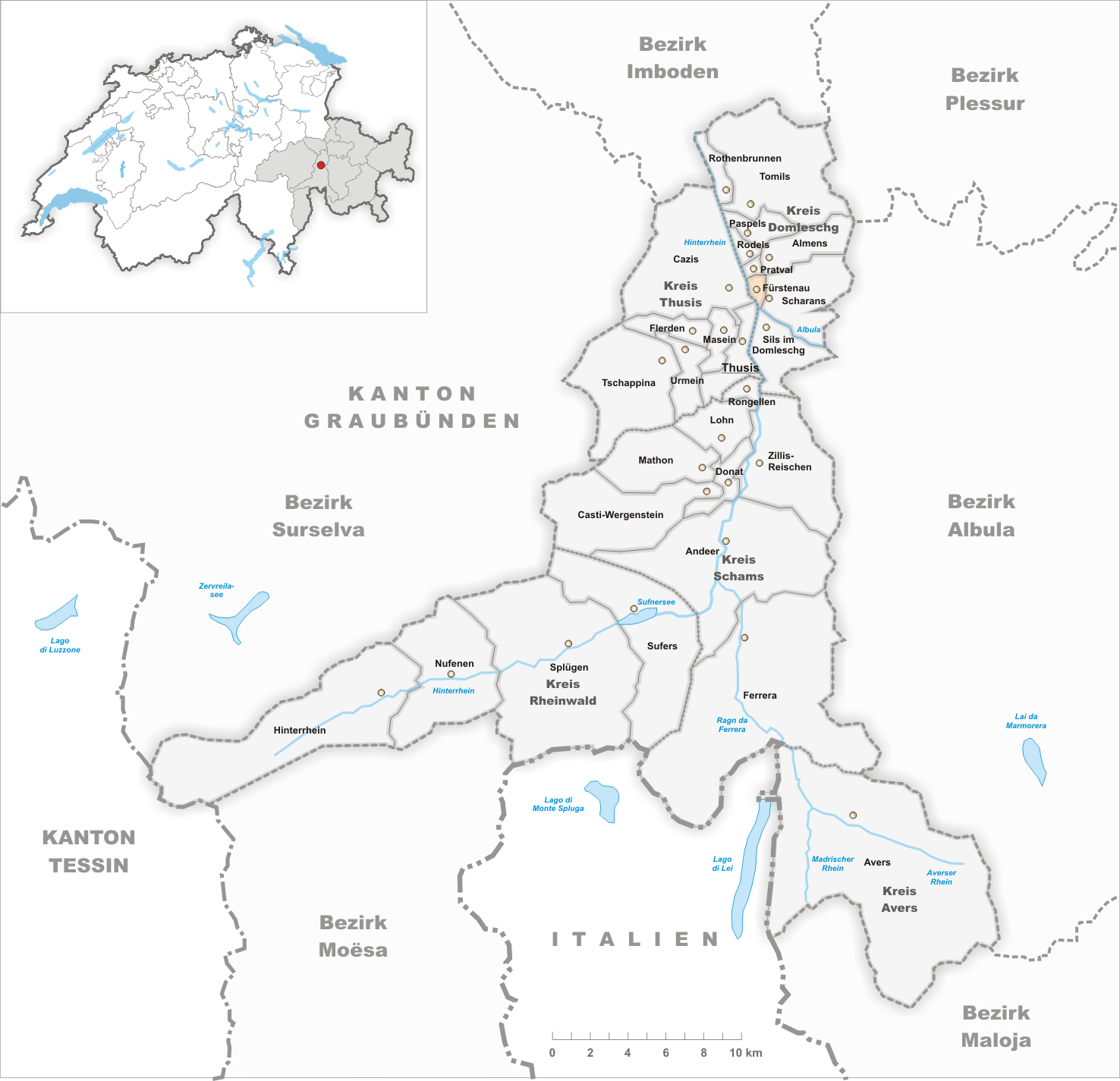 Municipality Fürstenau